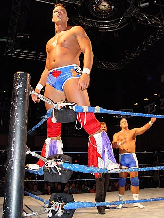 Category:Professional wrestling free use media